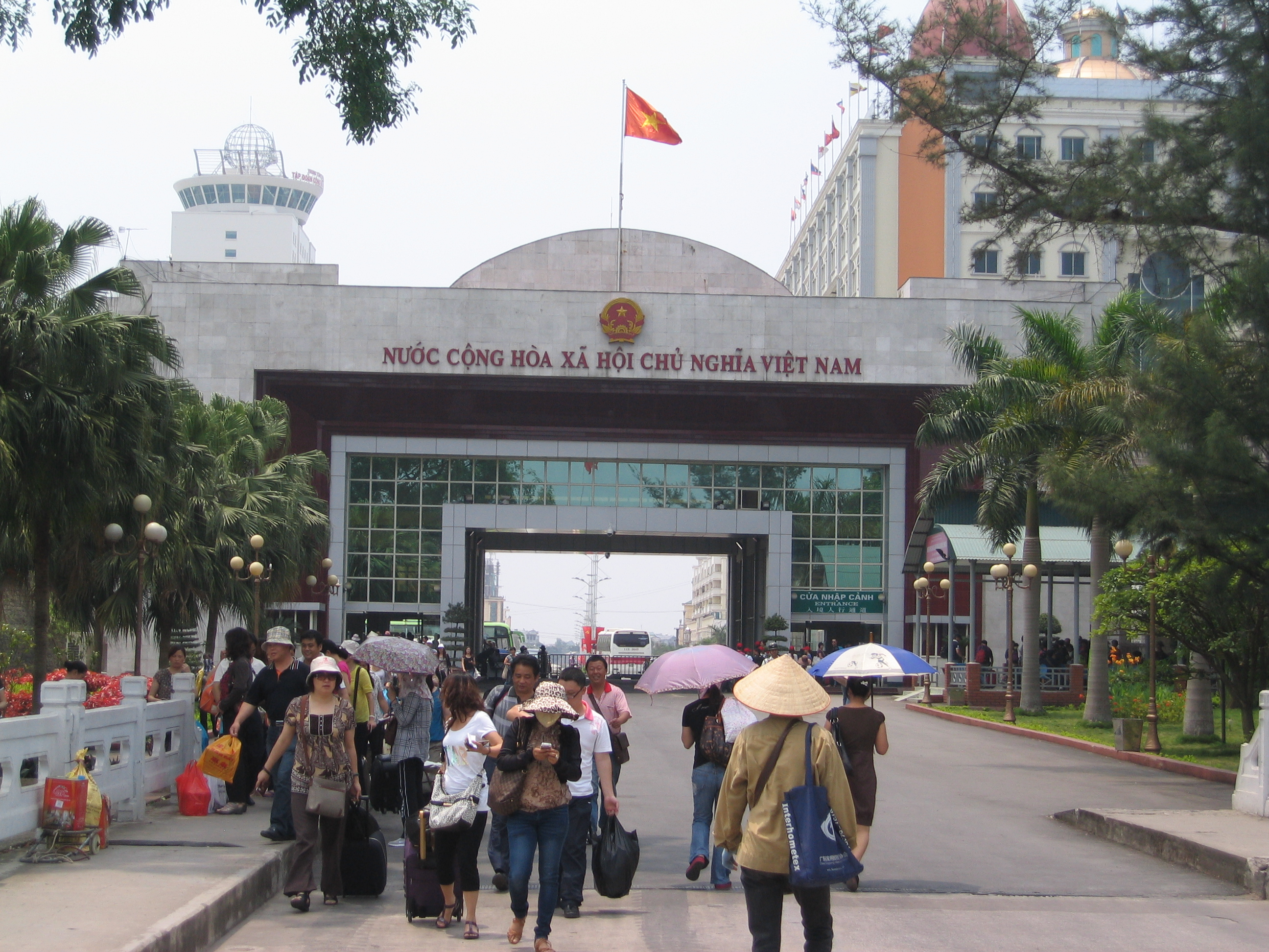 Sino-Vietnamese border in Dongxiang/Mong Cai